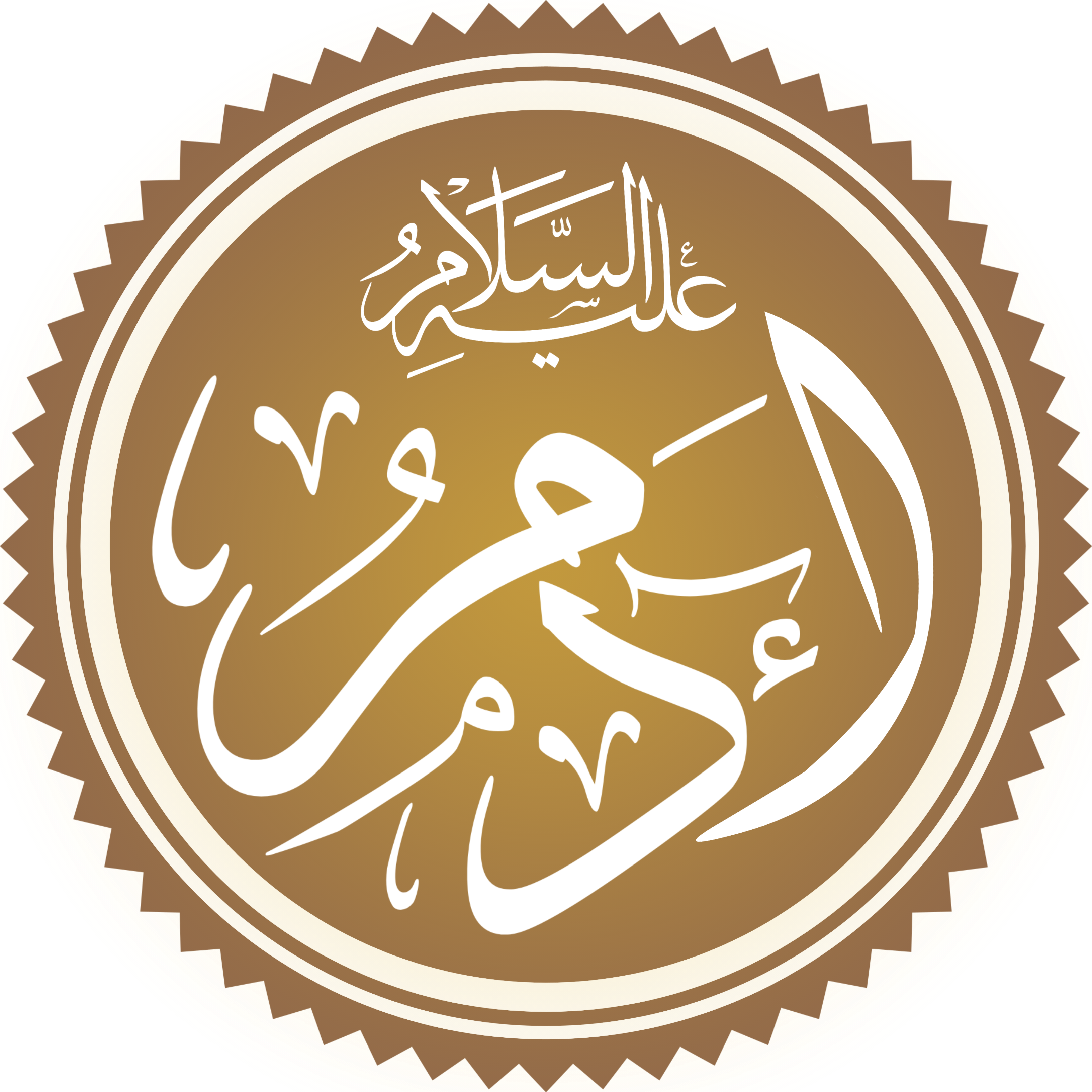 The calligraphic logo of Prophet Adam without background.